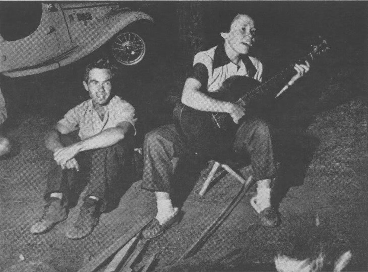 Jan (and Herb) Conn at Devils Tower a day before her first female assent